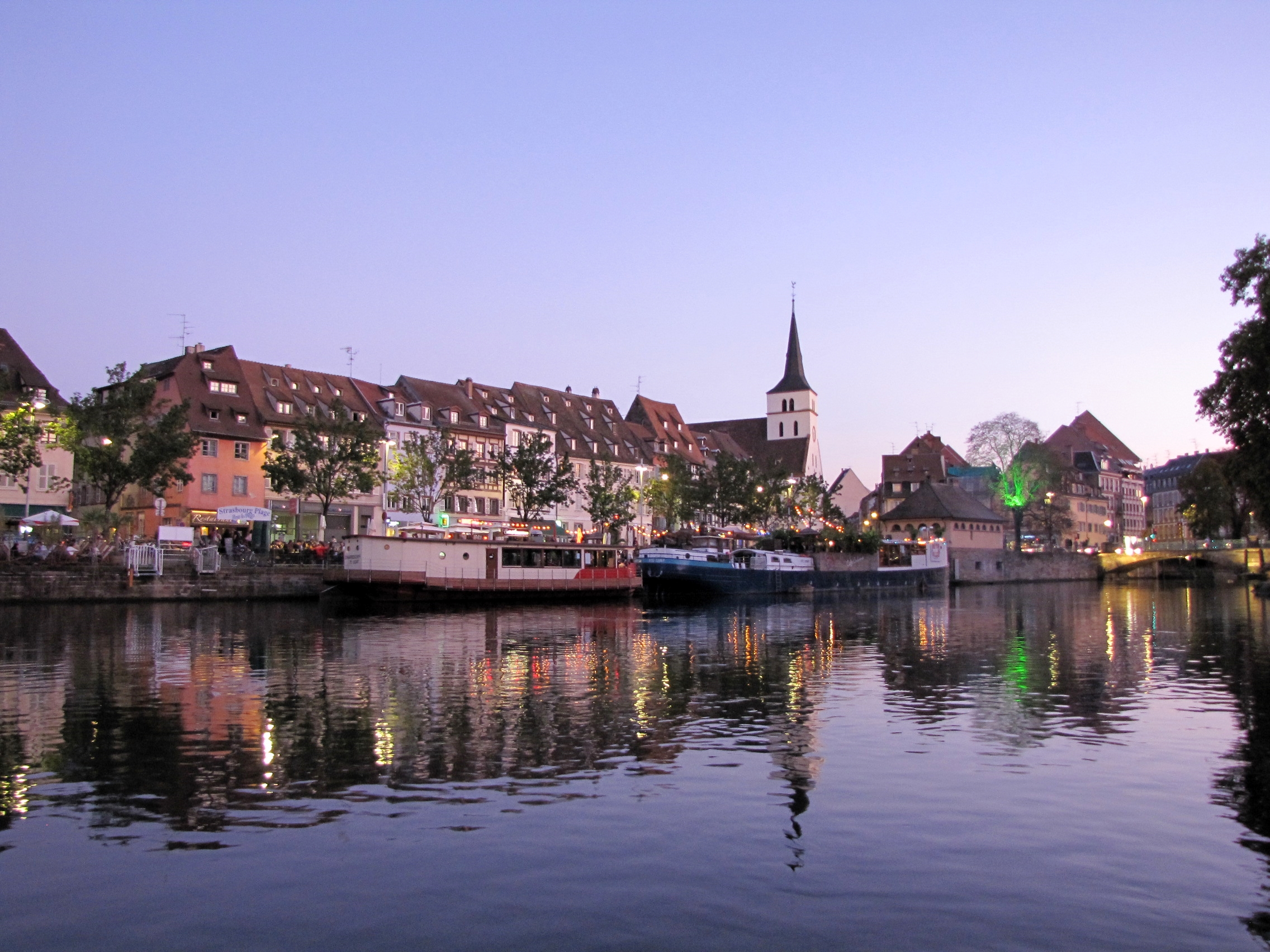 Canal of the Ill in Strasbourg